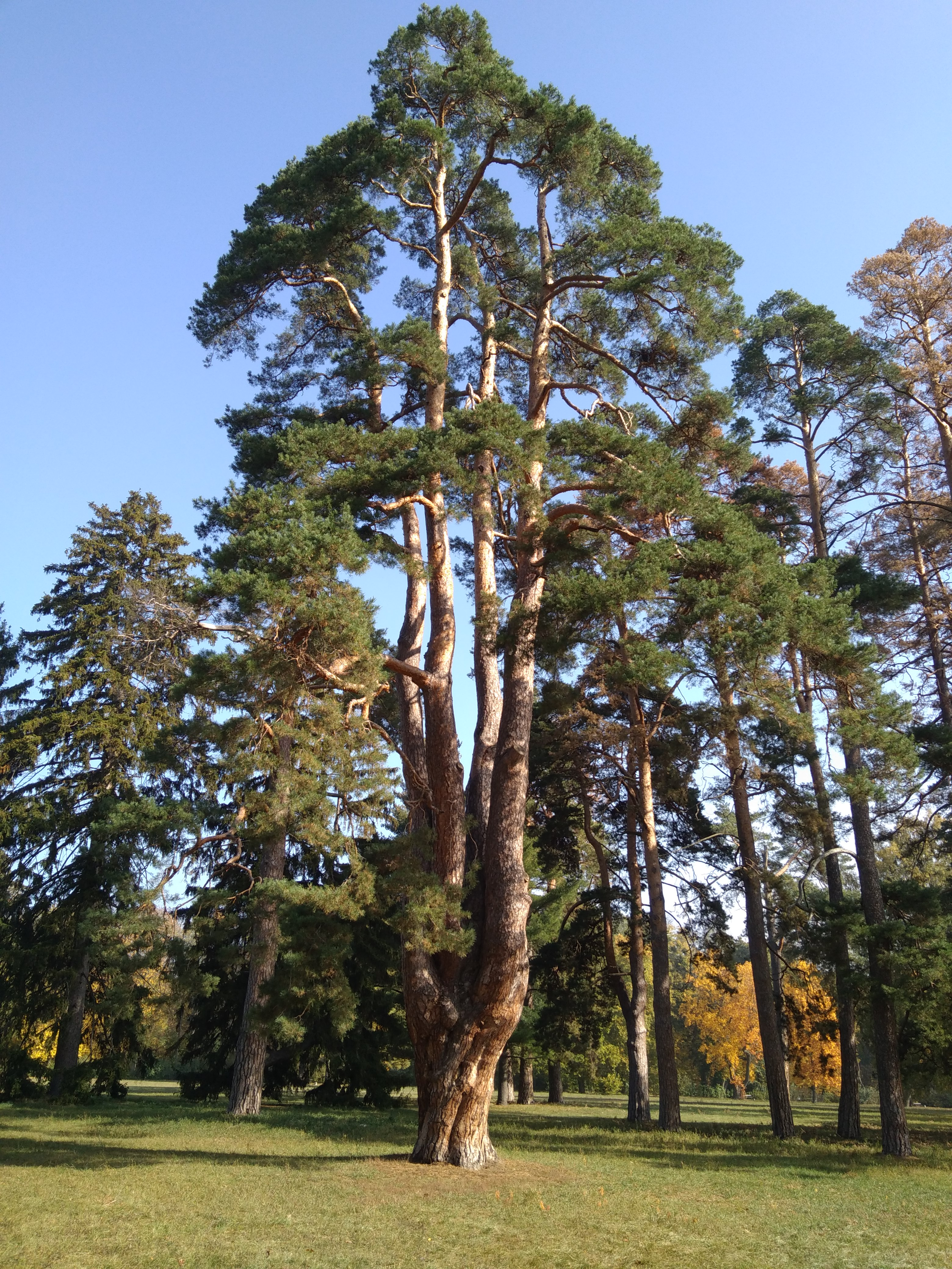 Pine "Family Tree" (Alexandria Dendropark, Ukraine)